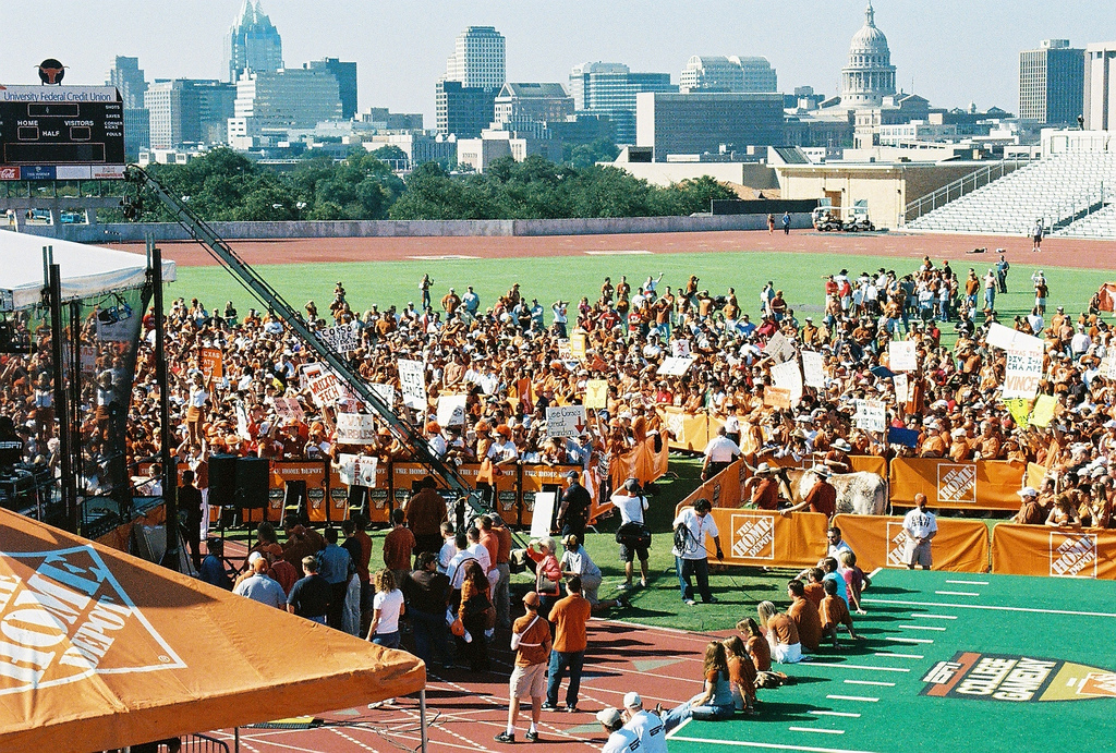 ESPN College GAMEDAY in Austin, Texas during the 2006 UT football season